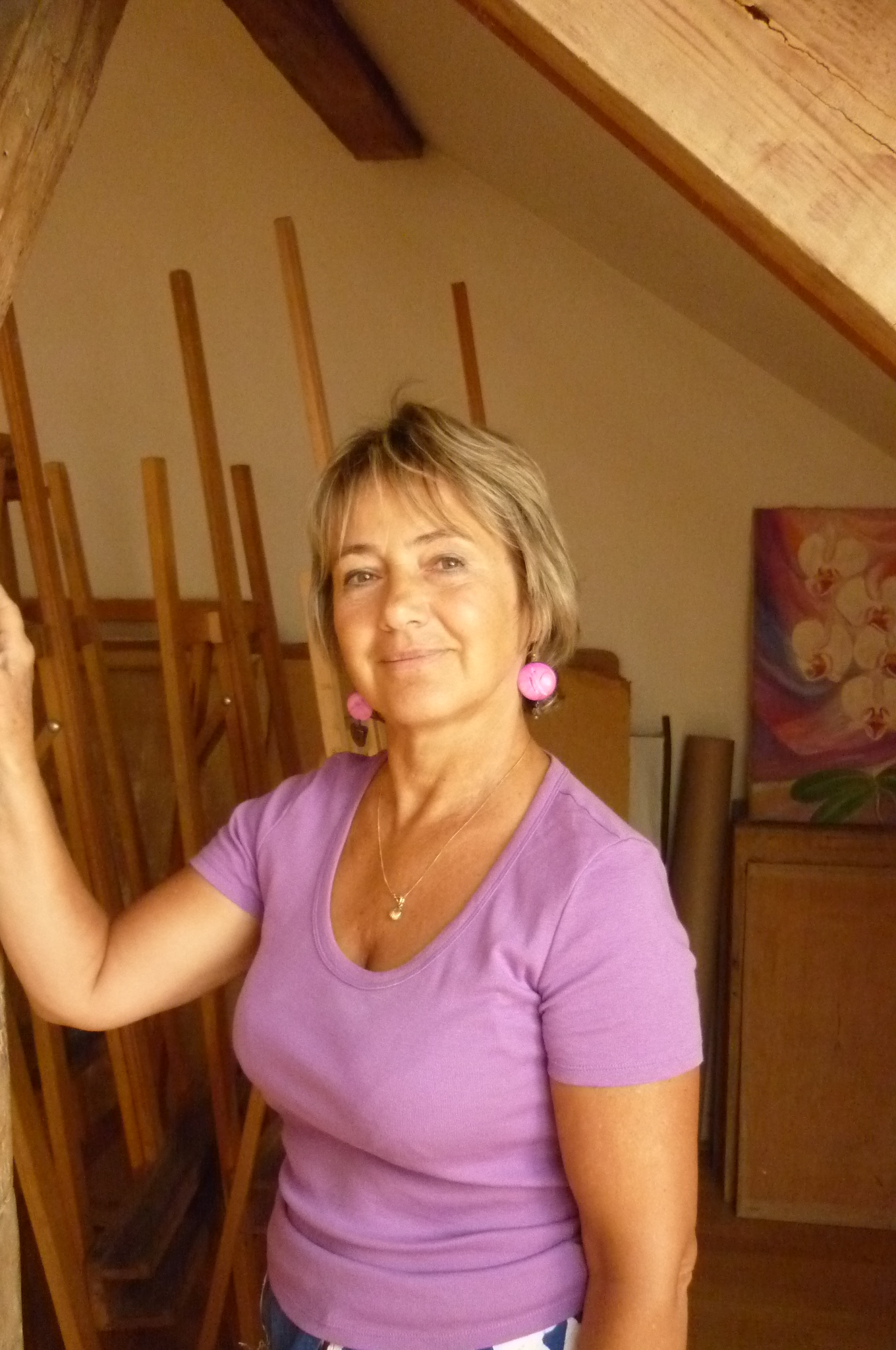 Czech academic painter, graphic artist and designer Eva Vejražková (* 1956). Photo from yaar 2012.